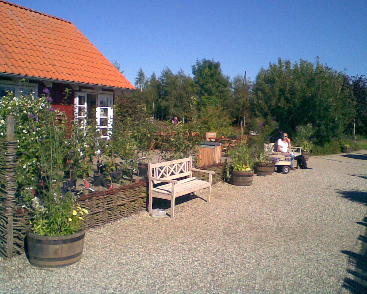 The Ecologic Garden, Odder, Denmark